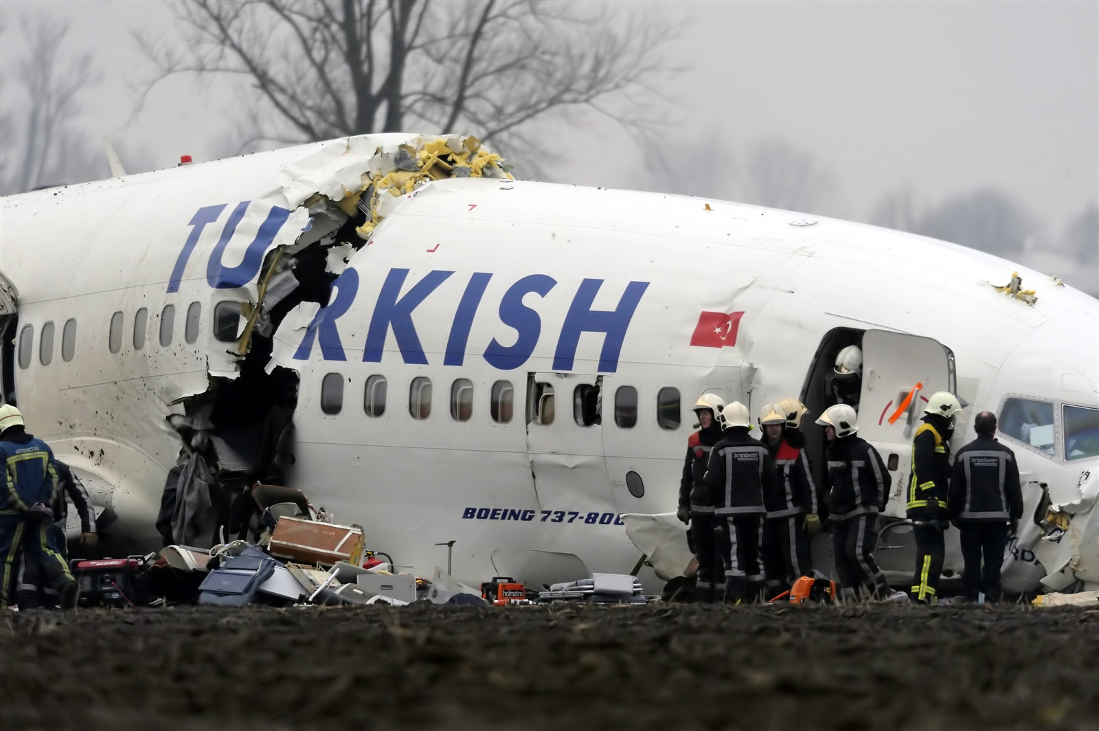 Crash site of Turkish Airlines Flight 1951, Boeing 737-8F2 (TC-JGE, "Tekirdağ"), at Schiphol Airport, near Amsterdam, The Netherlands. 25 February 2009; Copyright Fred Vloo / RNW